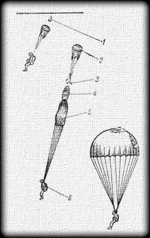 D-6 parachute